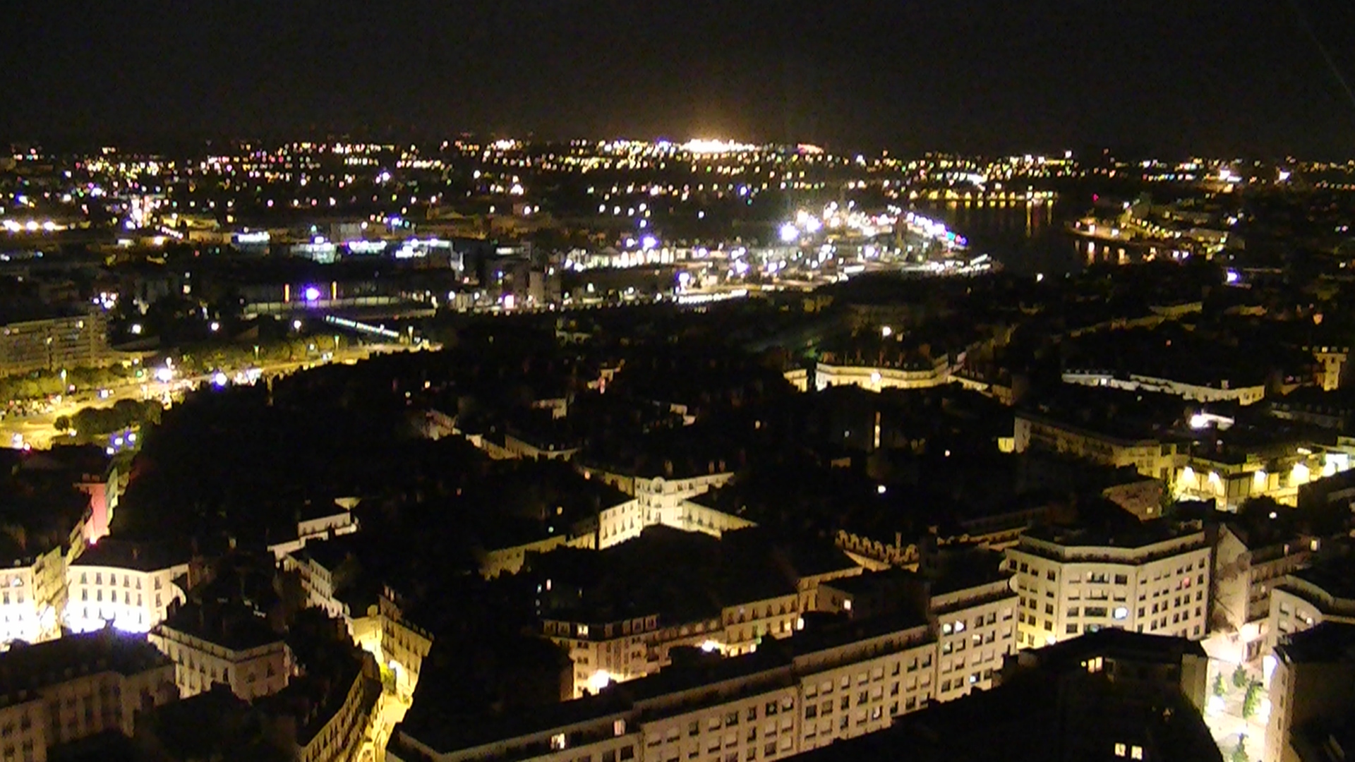 Looking towards the Île de Nantes, from the observation deck of the Tour Bretagne.